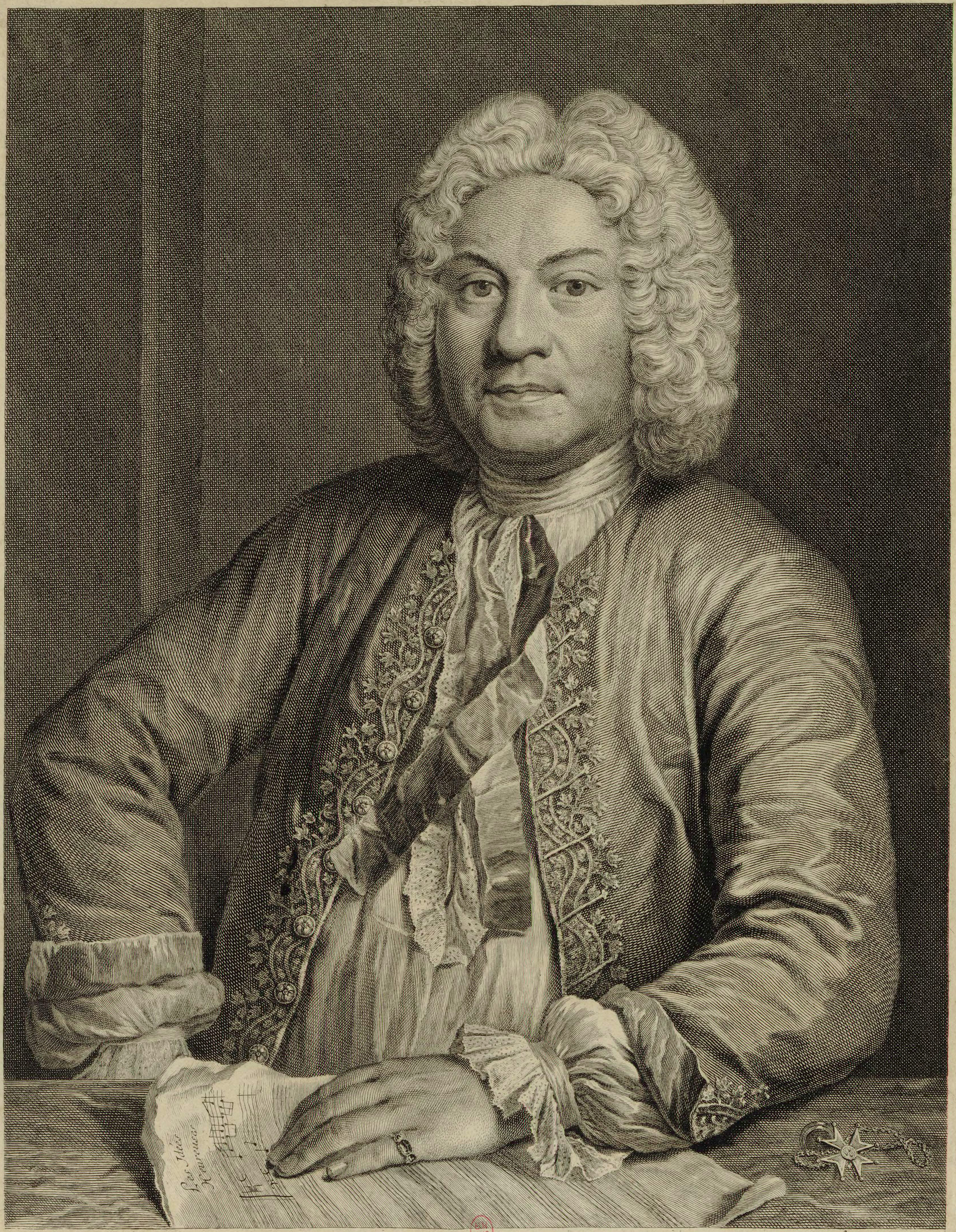 Etching by Jean-Charles Flipart, after painting by André Boüys of François Couperin (1668-1733), composer